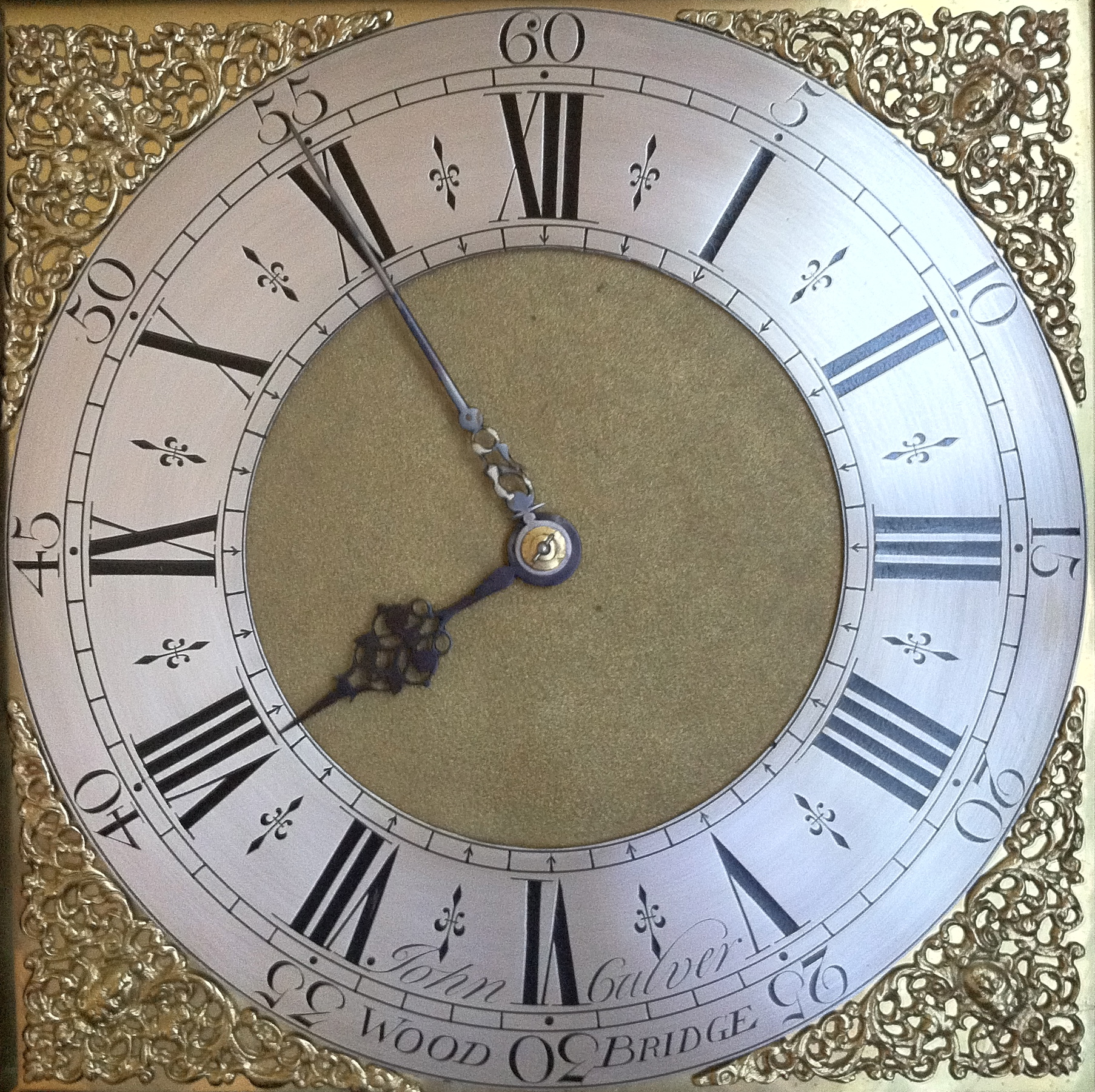 30 hour brass dial longcase clock face by John Calver, Woodbridge, Suffolk, ca. 1735